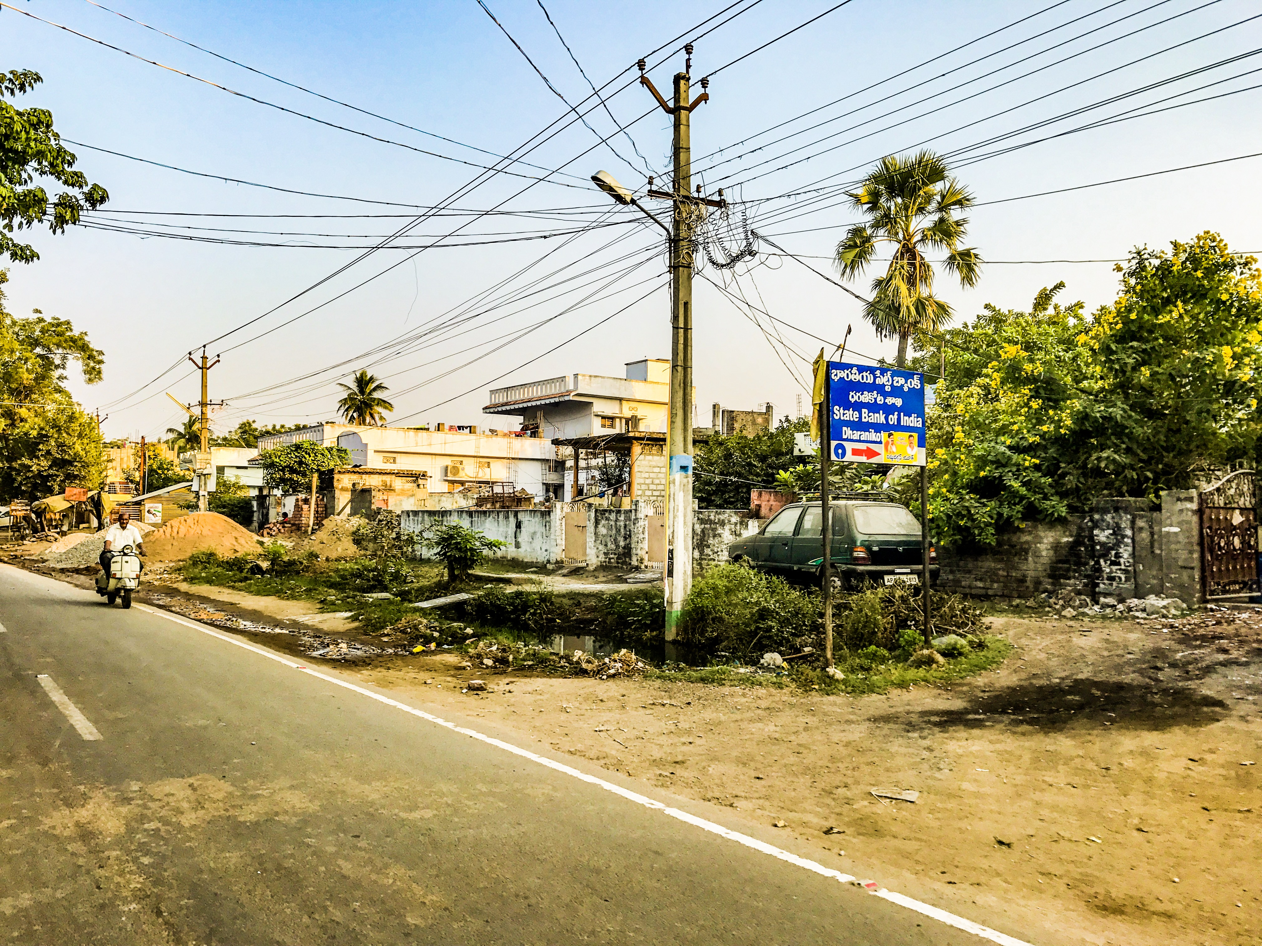 Residential areas in Amaravati-Dharanikota